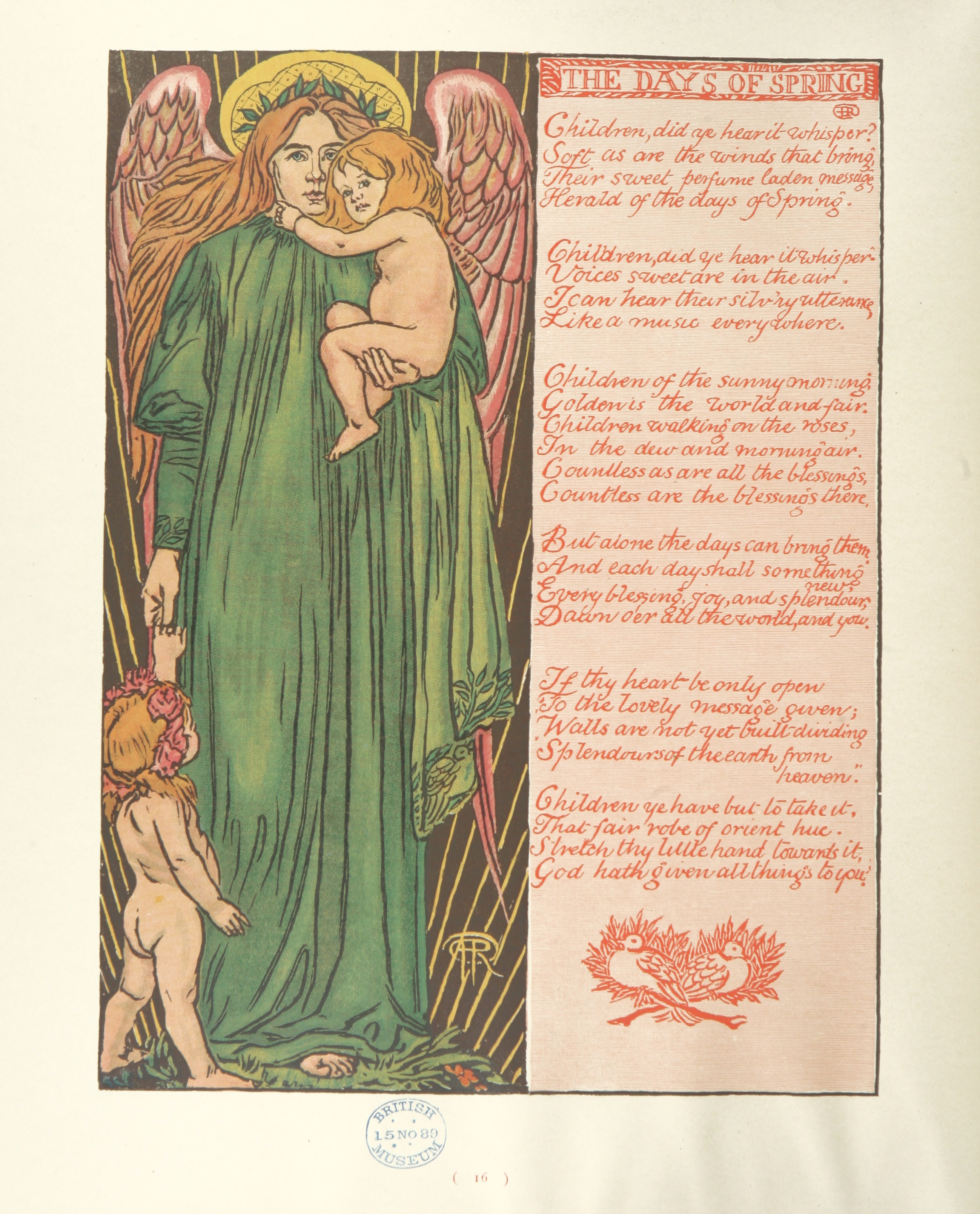 Image taken from: Title: "Flowers of Paradise. Music, verse, design & illustration by R. F. Hallward" Author: HALLWARD, Reginald Francis. Shelfmark: "British Library HMNTS 11651.m.18." Page: 20 Place of Publishing: London [printed] & New York Date of Publishing: 1889 Publisher: Macmillan & Co. Issuance: monographic Identifier: 001574815 Explore: Find this item in the British Library catalogue, 'Explore'. Download the PDF for this book (volume: 0) Image found on book scan 20 (NB not necessarily a page number) Download the OCR-derived text for this volume: (plain text) or (json) Click here to see all the illustrations in this book and click here to browse other illustrations published in books in the same year. Order a higher quality version from here.